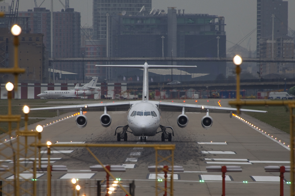 A BAe 146 taxiing for take-off at London City Airport.